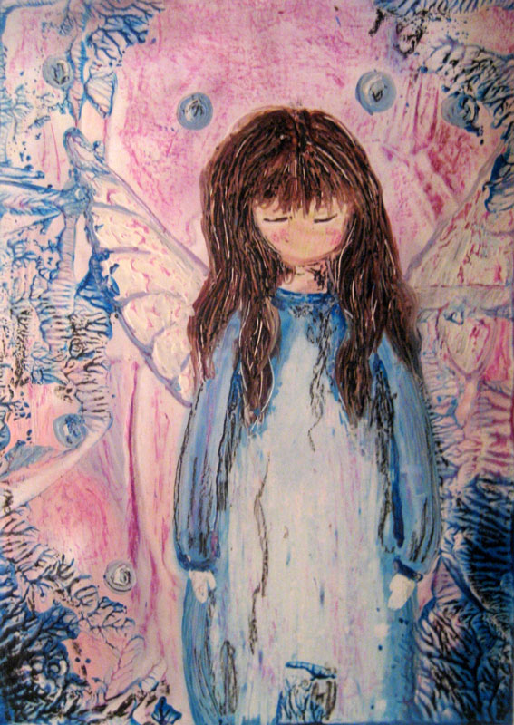 my owne creation done with beeswax crayons encausticiron and hotpen for encaustic